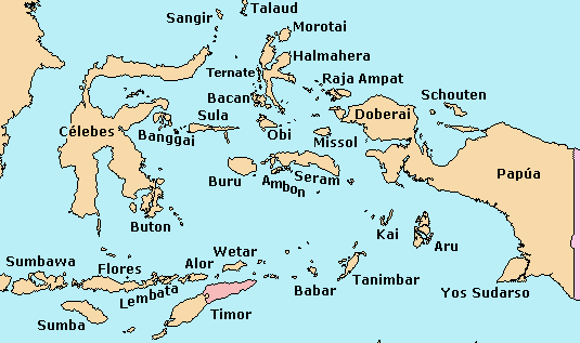 Map of East Indonesia